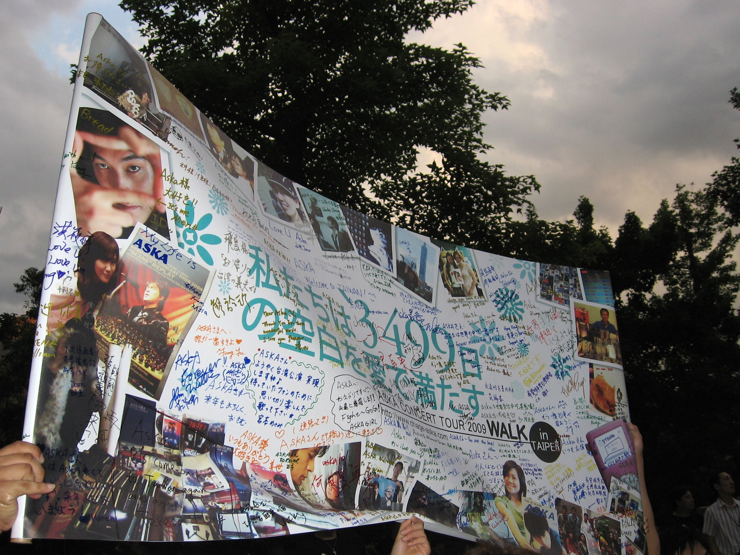 ASKA CONCERT TOUR 2009 WALK in TAIPEI (Fans)